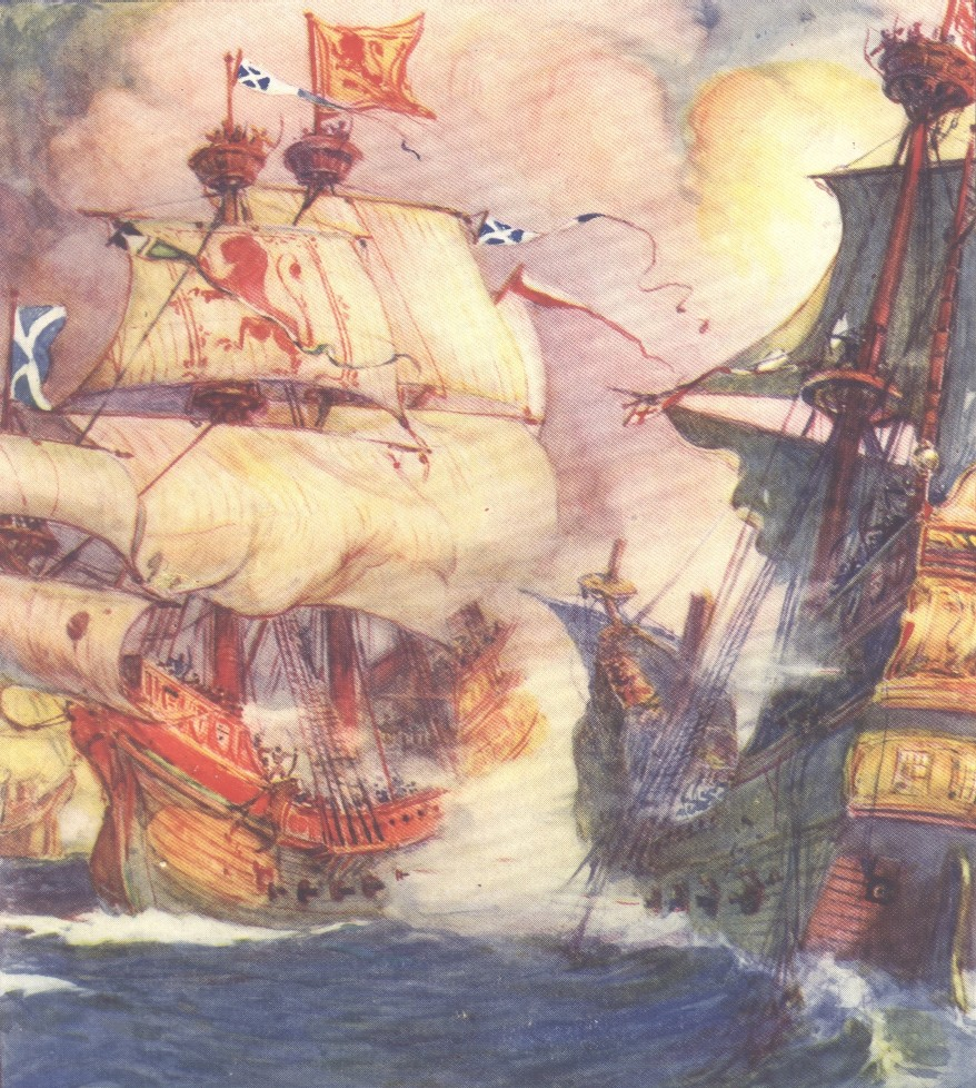 A depiction of the Yellow Carvel in H E Marshall's 'Scotland's Story', published in 1906